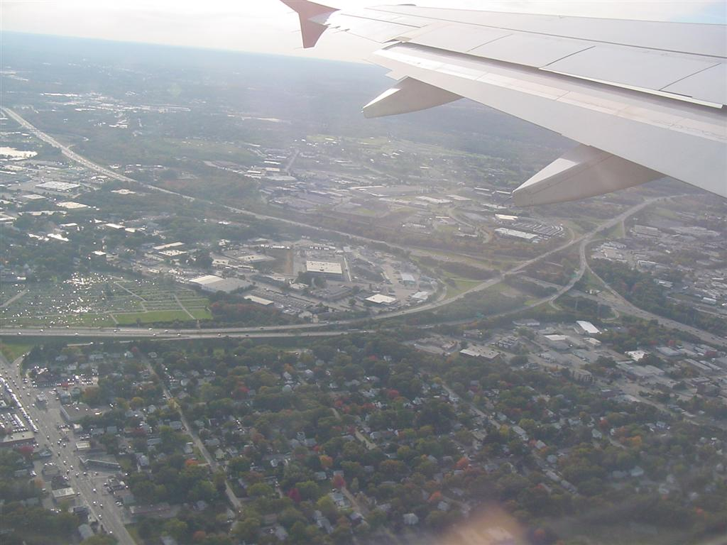 Aerial view of the junction of Interstate 95 and Rhode Island Route 37